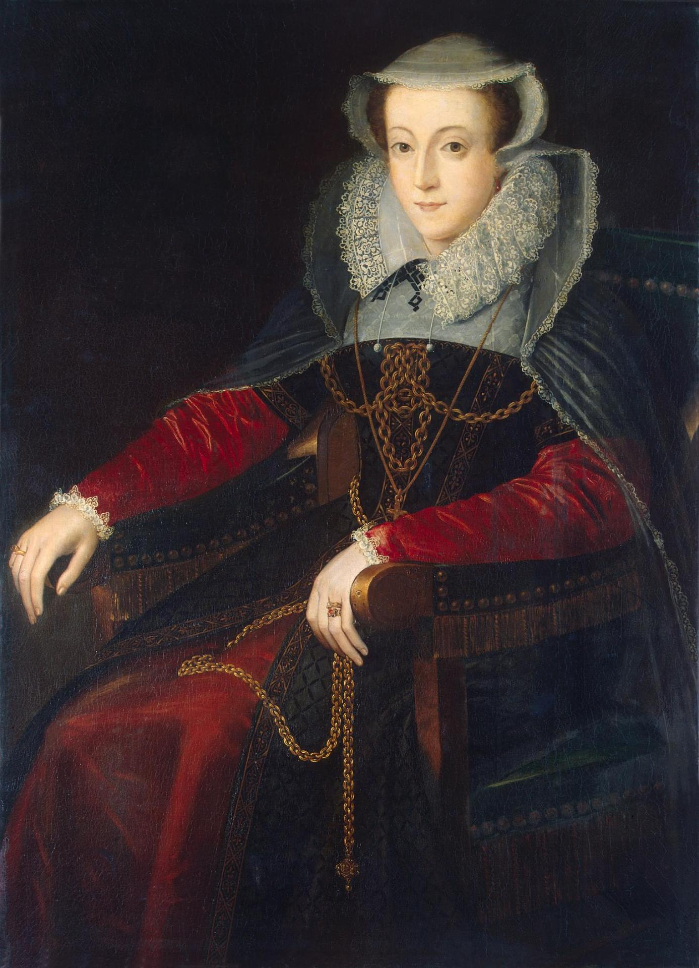 portrait of Mary Queen of Scots, seated.